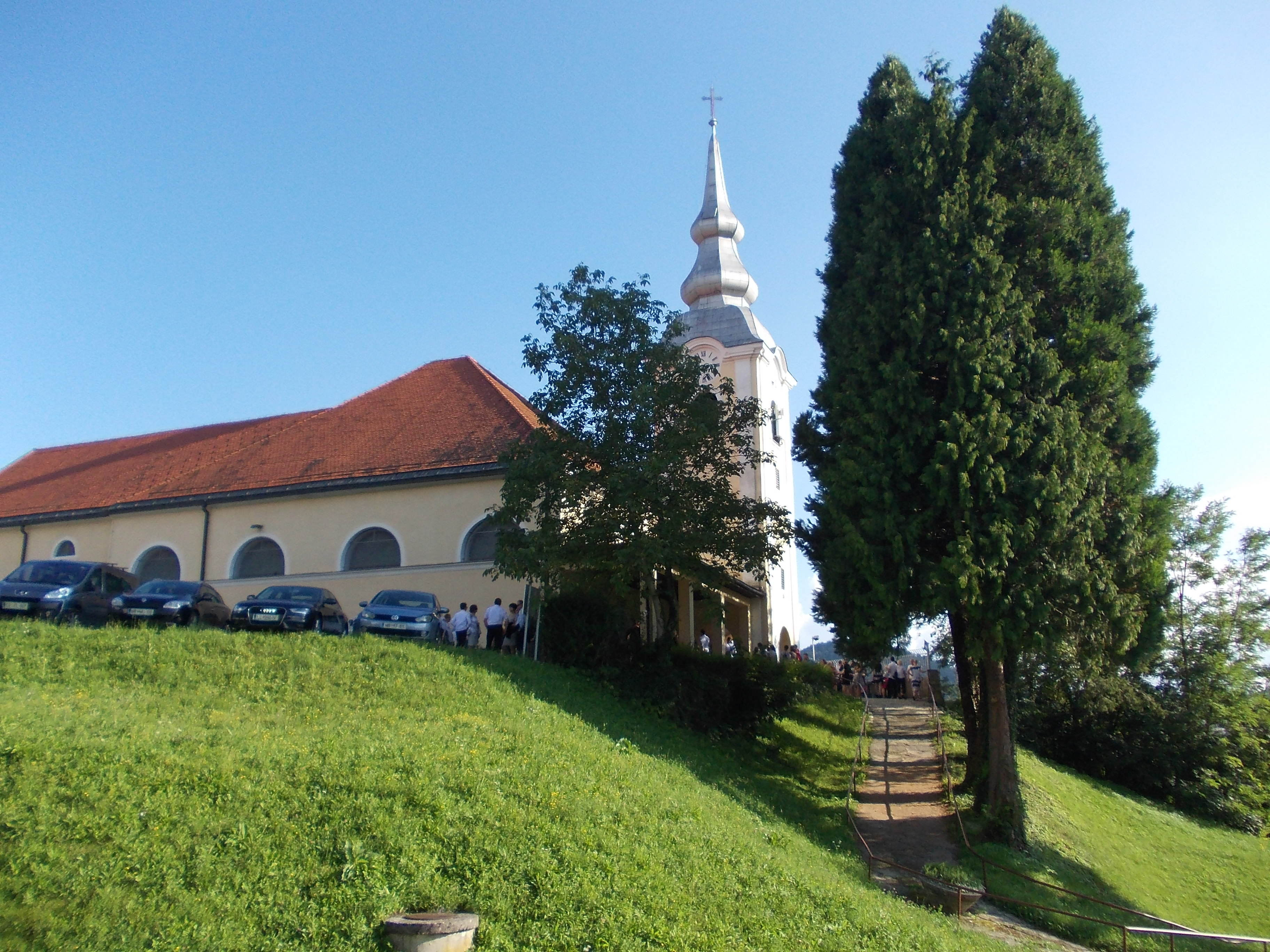 St. Martin's Parish Church (Velenje)